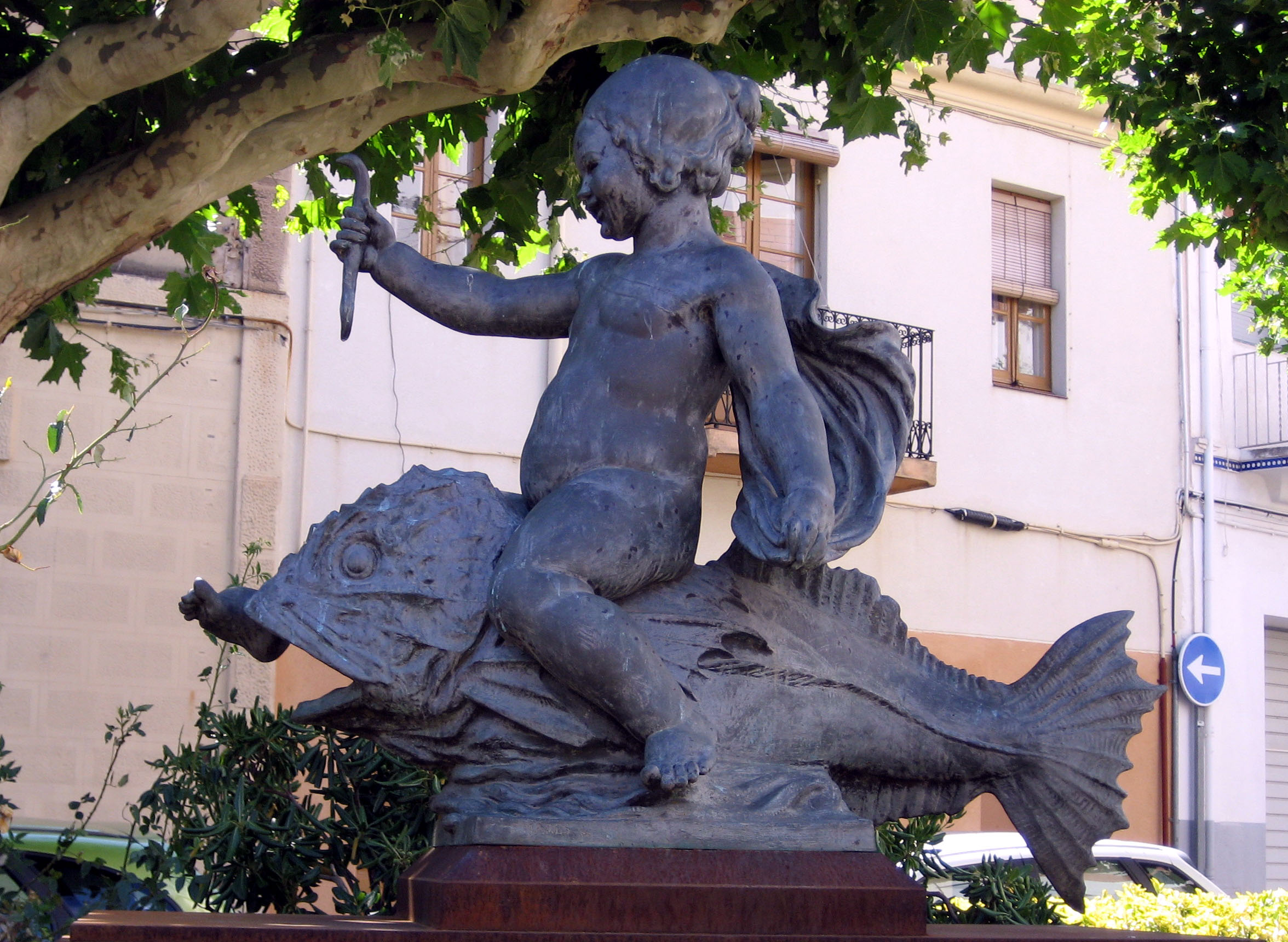 Escultura pública en Portbou -provincia de Gerona- realizada por Frederic Marès. Frederic Marès (1893–1991) Alternative names Frederic Marés Deulovol; Frederic Marés; Frederic Marés i Deulovol; Frederic Marès Deulovol; Frederic MarèsDescriptionSpanish sculptorDate of birth/death 18 September 1893 16 August 1991Location of birth/death Portbou BarcelonaAuthority control : Q3397291 VIAF: 47563360 ISNI: 0000 0001 0530 8029 ULAN: 500037520 LCCN: n96071416 GND: 119062798 WorldCat creator QS:P170,Q3397291